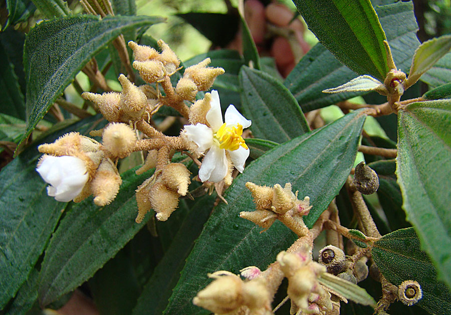 Found from southern Mexico to Columbia. Photo from near Boquete, western Panama. In context at